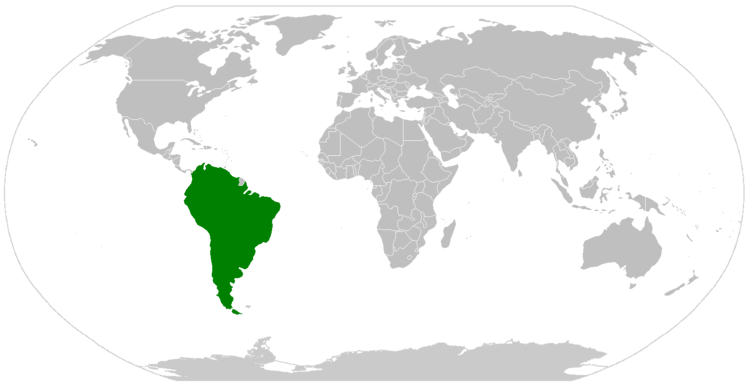 location of the South American Community of Nations